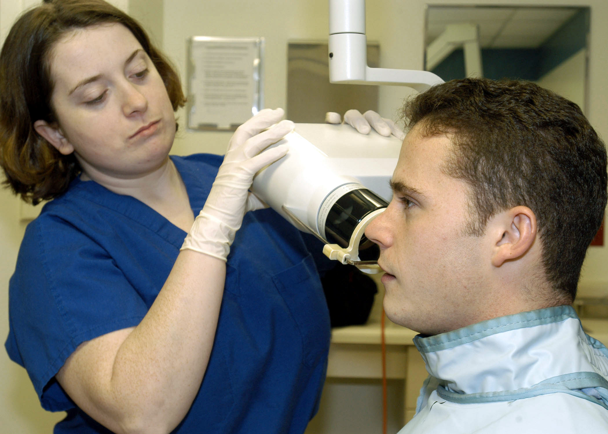 Oak Harbor, Wash. (Jan 27, 2004) – Using an Intraoral Radiography machine, Dental Technician Ramona Loporto, X-ray's Photographer's Mate 2nd Class Michael Watkins, teeth and gum lines during a routine dental examination aboard Naval Hospital Oak Harbor Naval Air Station, Whidbey Island, Wash. U.S Navy photo by Photographer's Mate 2nd Class Casey R. Hutchens. (RELEASED)